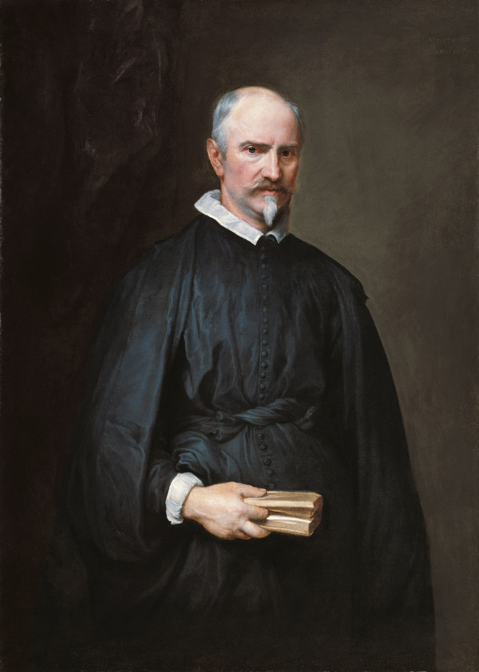 Antonio de Tassis (1584-1651) lost his left arm in the army of the Spanish Netherlands against the States General. He later turned to the spiritual life, and took holy orders in 1629. He is depicted as a canon in Antwerp Cathedral, where he worked from 1630 on. His missing arm is concealed by his wide garment, the right hand is holding a book. The light brings his right eye into the foreground. De Tassis left an art collection when he died in 1651. His portrait was engraved in the 1656 "Iconography", which published portraits of major military commanders, rulers, artists and clerics based on work by van Dyck.